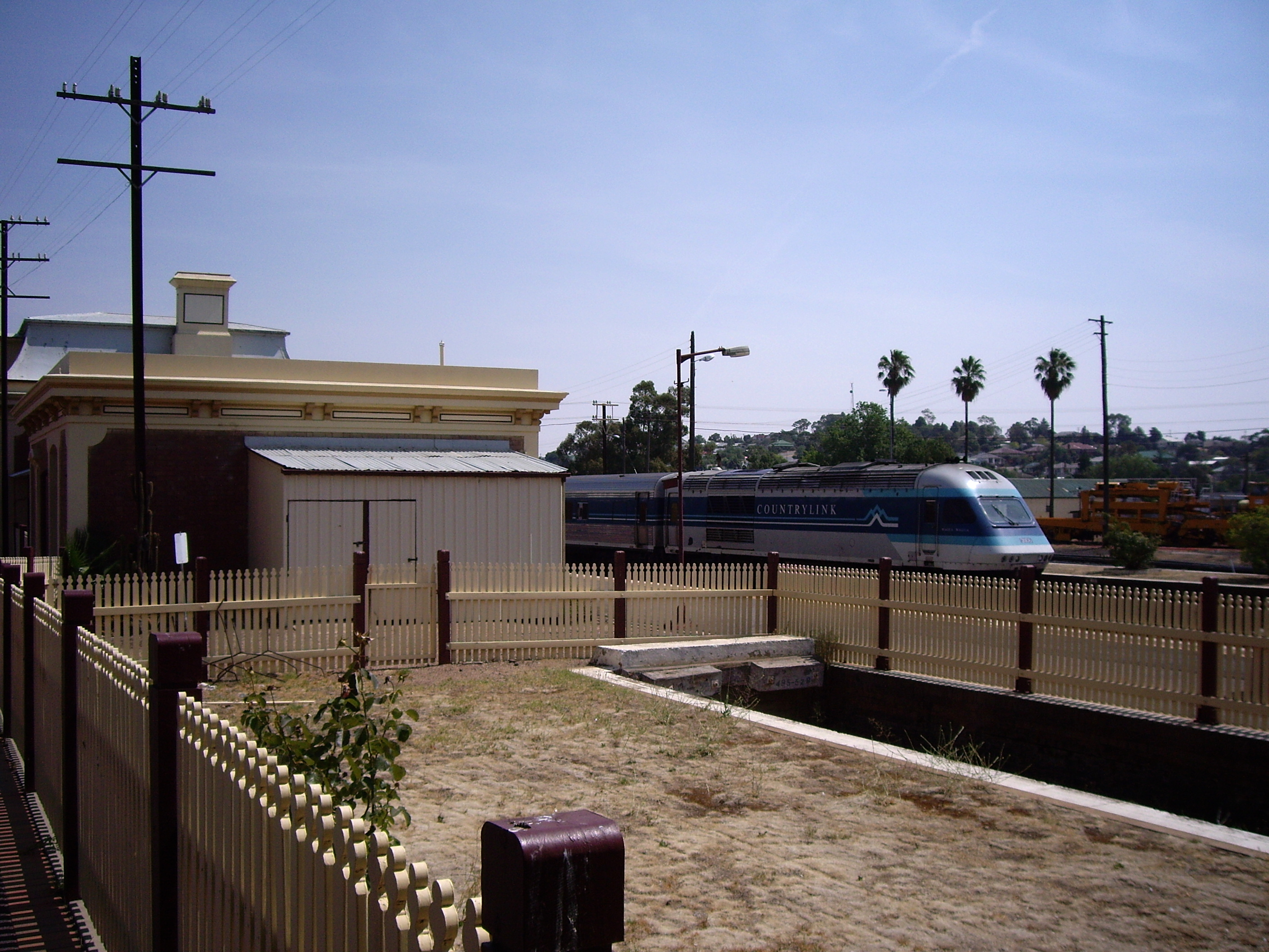 Junee Railway Station